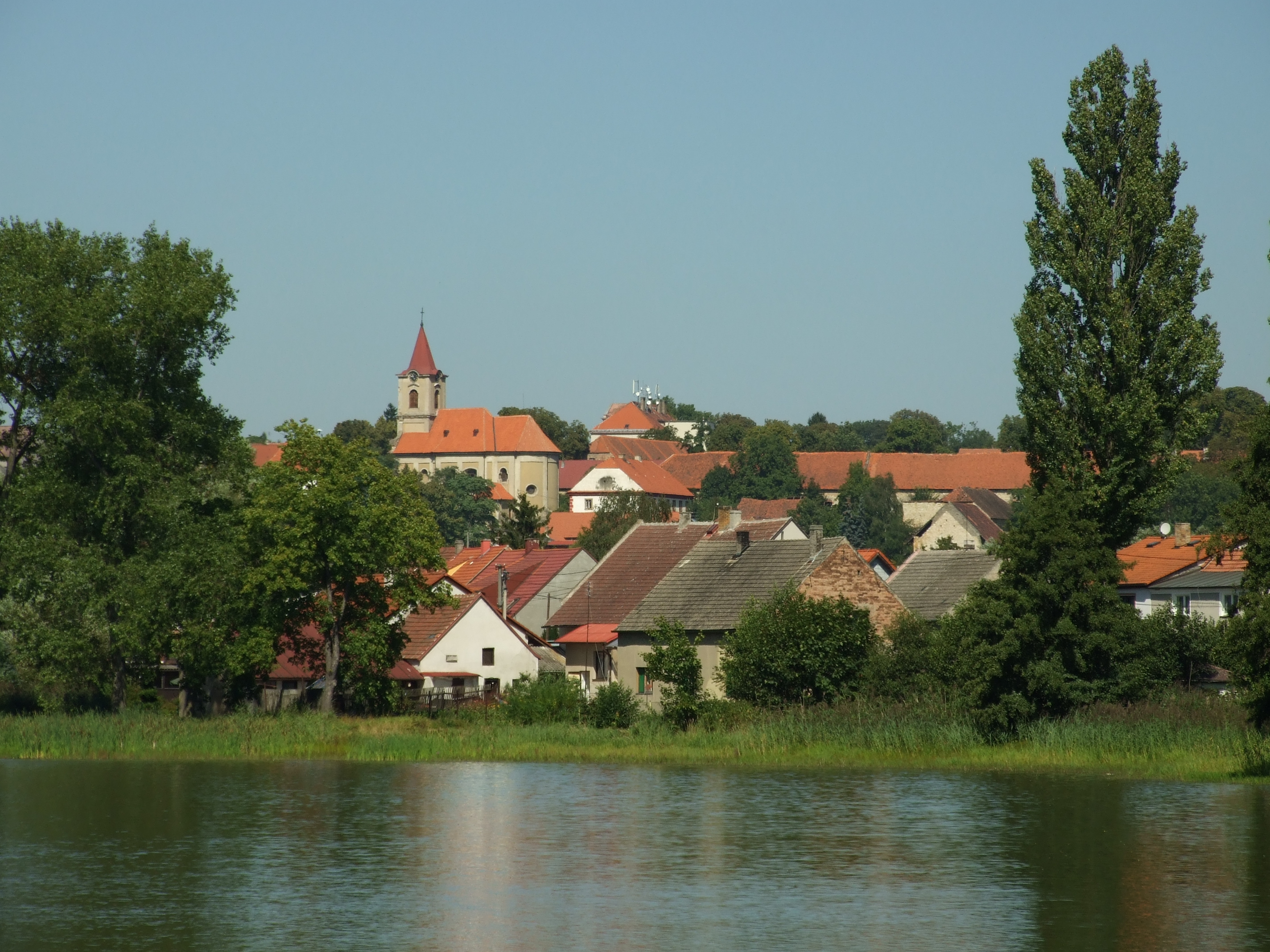 Mšec town in Rakovník district seen from south, Central Bohemian region, CZ This photograph was taken within the scope of the 'Czech Municipalities Photographs' grant.